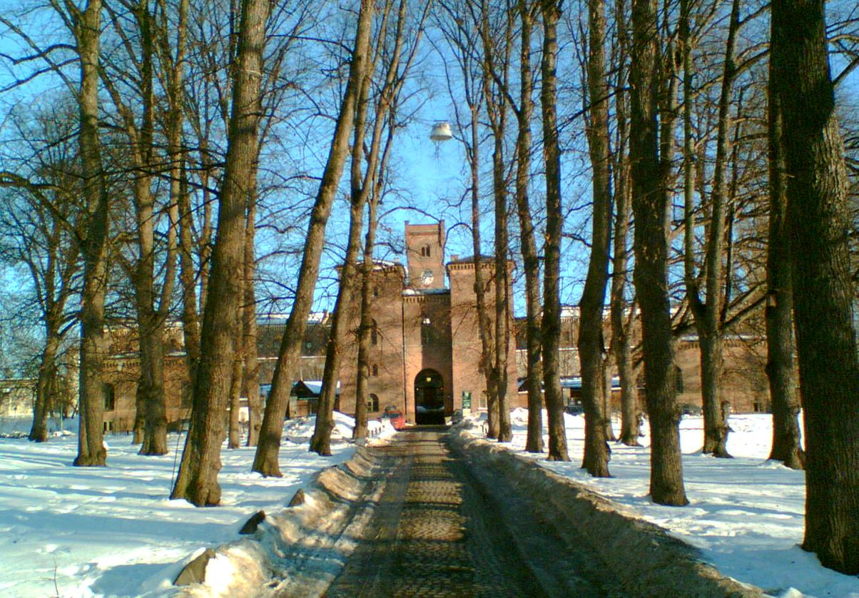 The entrance of Oslo Penitentiary